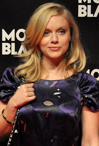 Christina Cole attending "To John - With Peace & Love" Global Launch of the Montblanc John Lennon Edition on September 12, 2010 at Jazz at Lincoln Center in New York City.